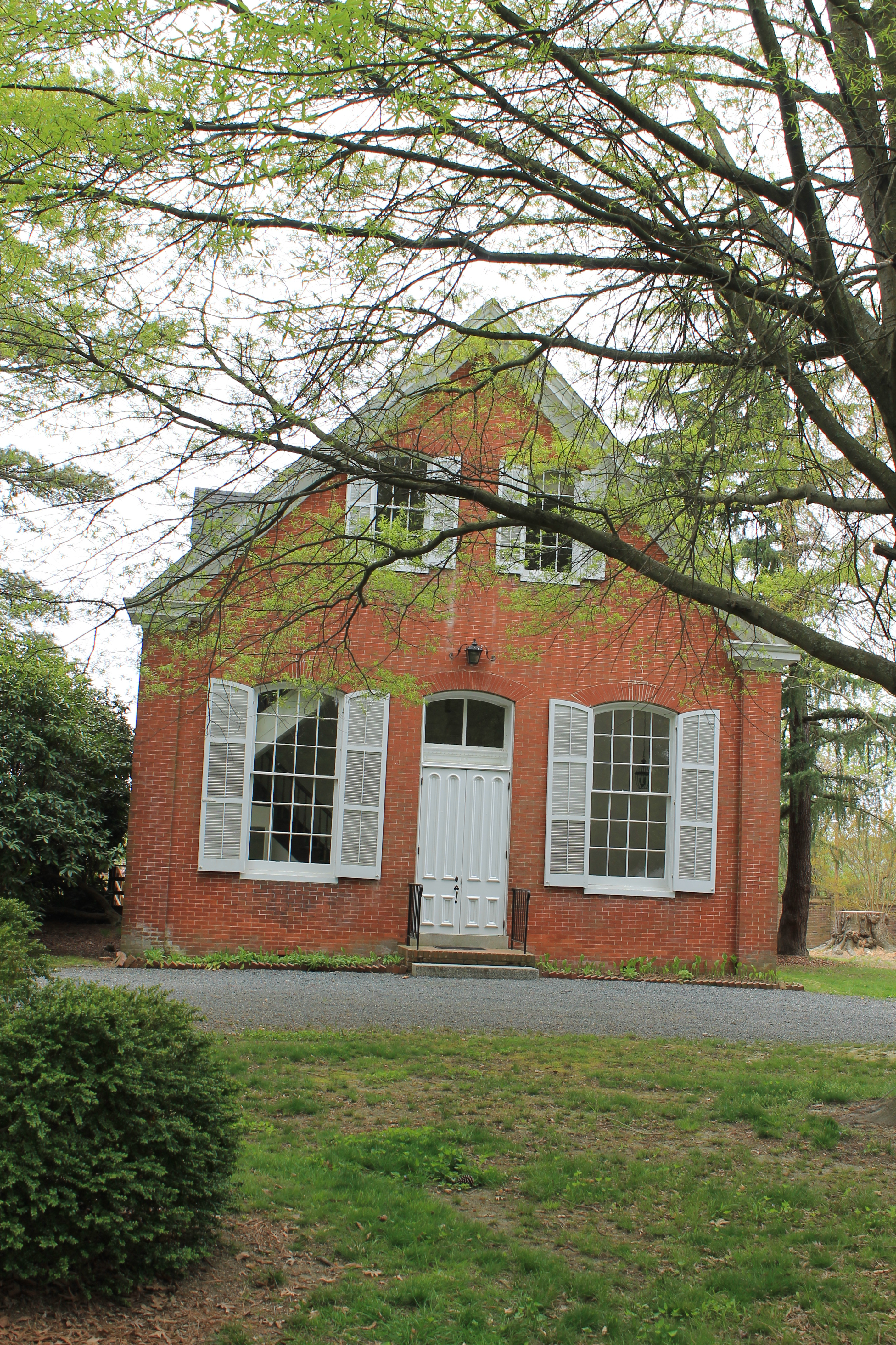 The new Quaker meeting house in Talbot County, Maryland.